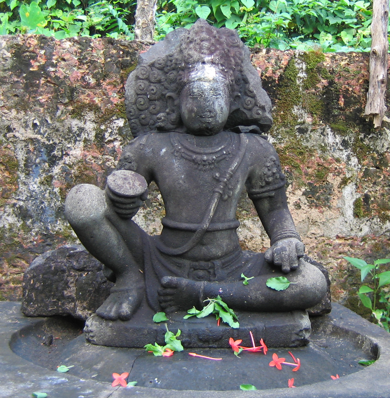 Ayyappa Idol at Mridngasaileswari temple, Muzhakkunnu, Kannur.